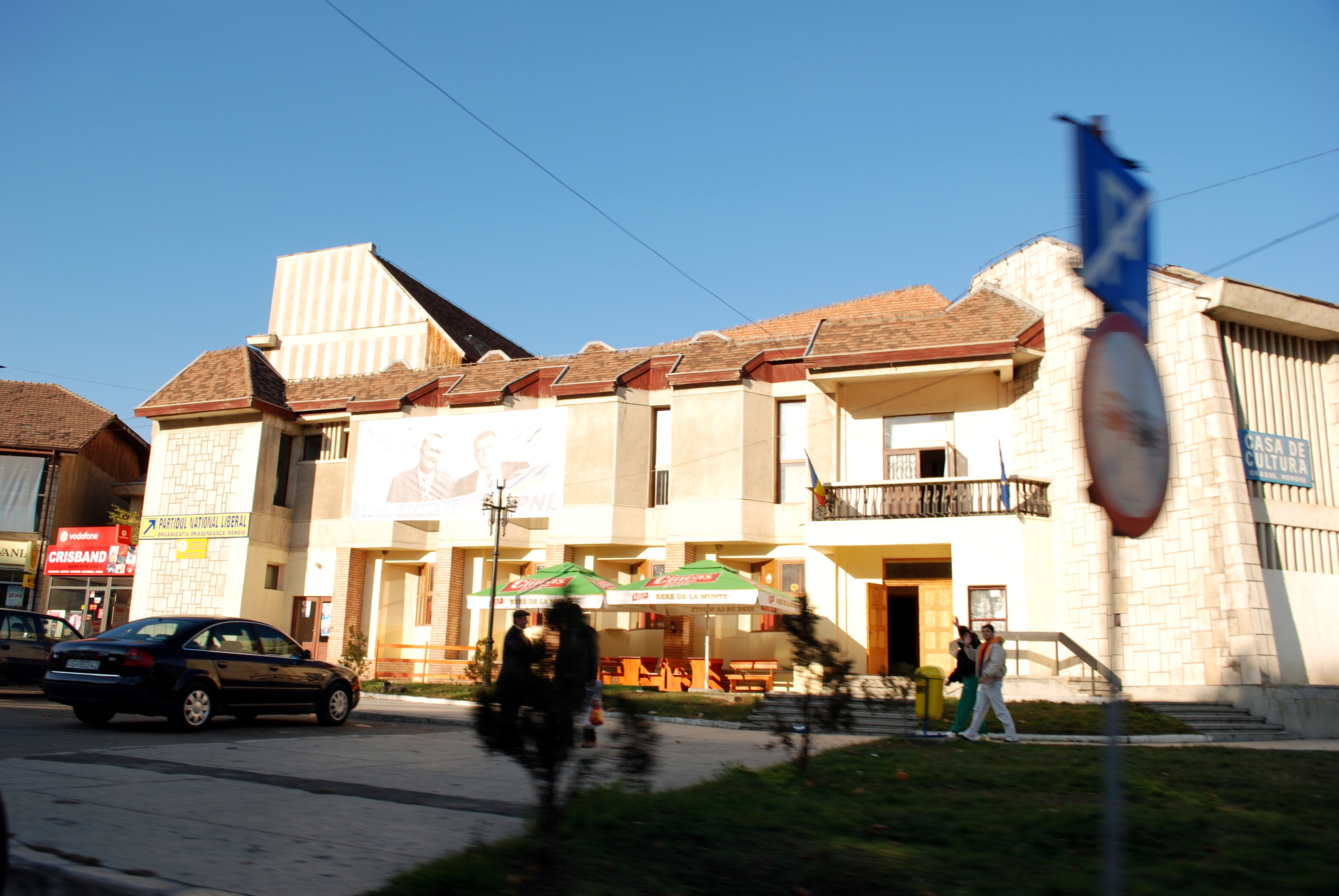 The Nehoiu, Romania community cultural center